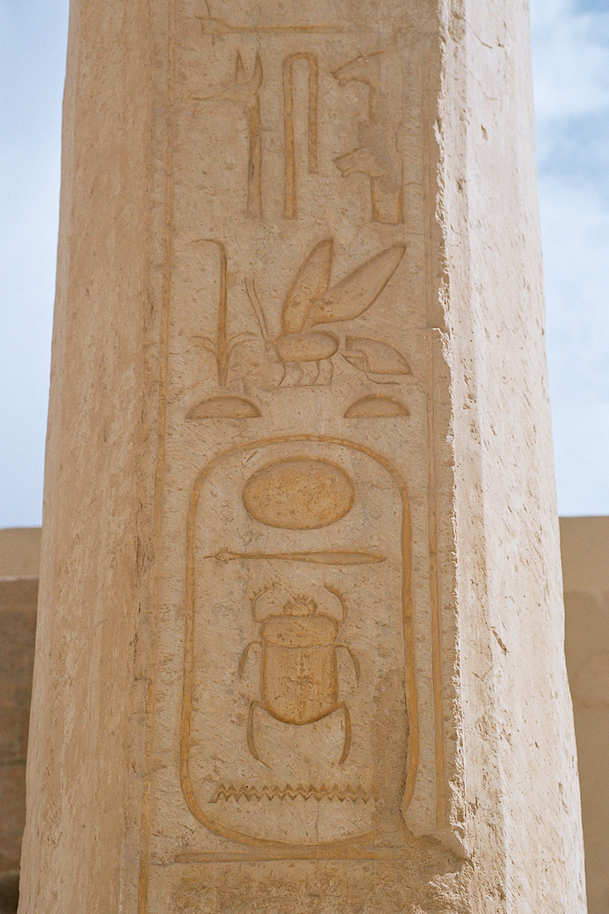 Hieroglyphs – the throne name of Thutmose II (Aakheperenre) on an column on the last floor of the Temple of Hatshepsut, on Luxor's west bank, Egypt.Egyptian language hieroglyph name: Aa-kheper-n-ra.-(see: Ancient Egyptian royal titulary-Throne Name)